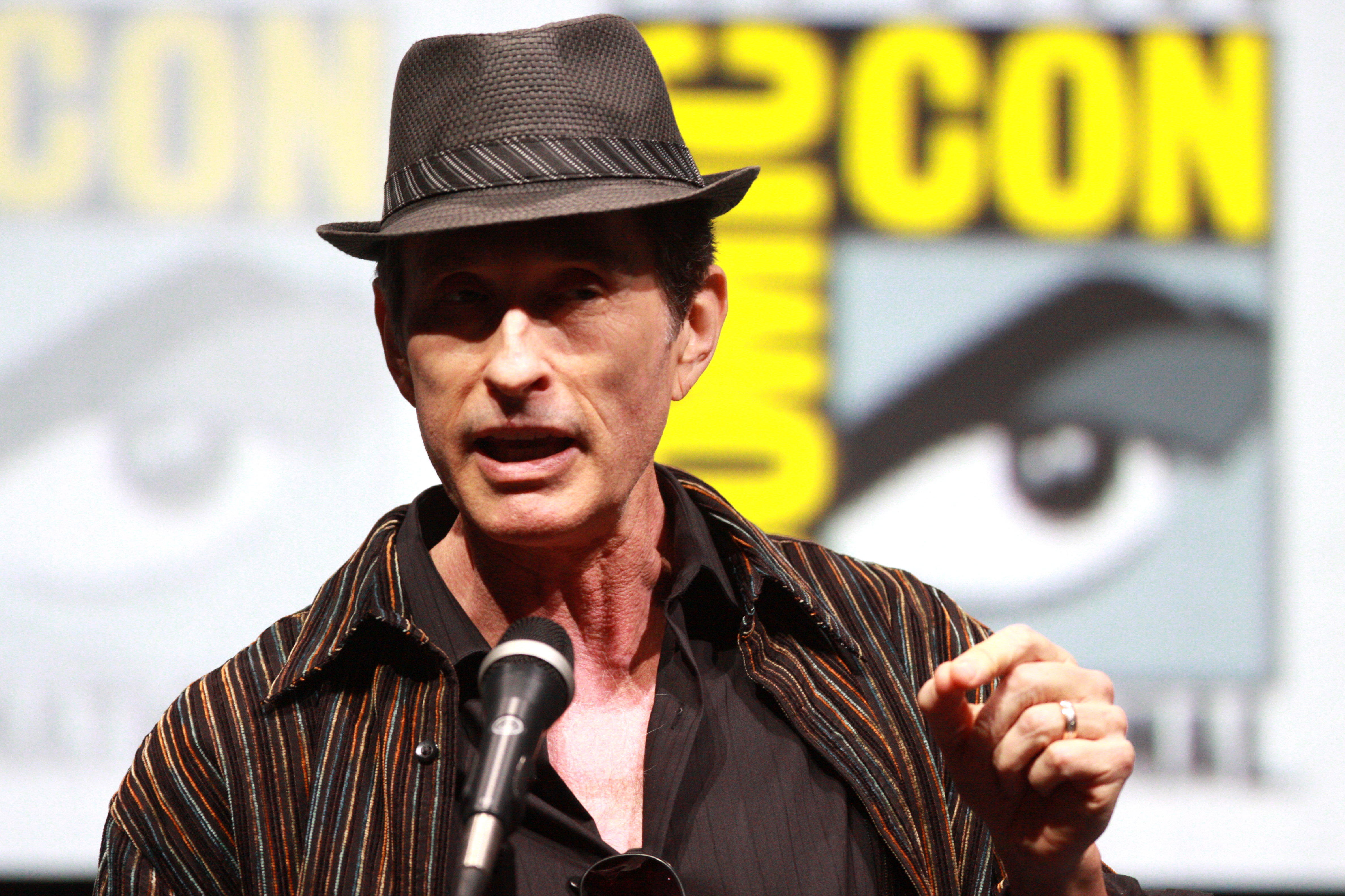 David Twohy speaking at the 2013 San Diego Comic Con International, for "Riddick", at the San Diego Convention Center in San Diego, California.